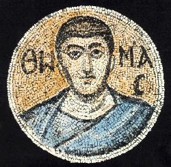 Portrait of Thomas the Apostle